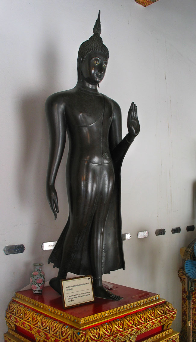 Walking Buddha, Sukhothai style, Wat Benchamabopit (Marble Temple), Bangkok, Thailand